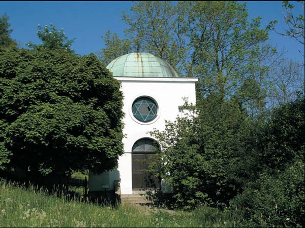 Former ceremonial hall of Jewish cemetery in Žamberk. An edifice from 1931-32, restored in 1990s, today houses an permanent exhibition on life of the Jewish community in Žamberk.